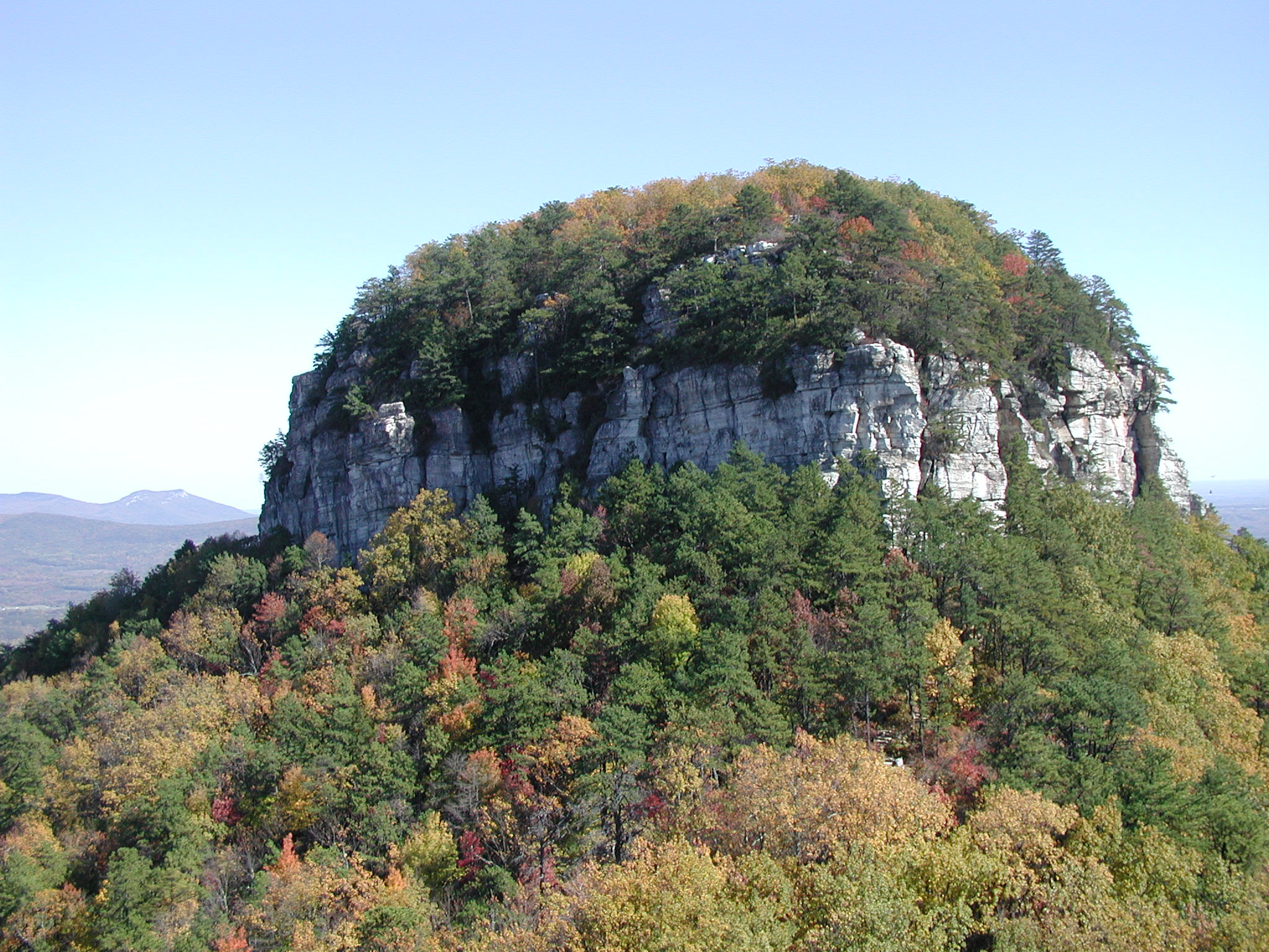 Pilot Mountain Knob — in North Carolina. Photo taken 10-30-2008 from Little Pinnacle.